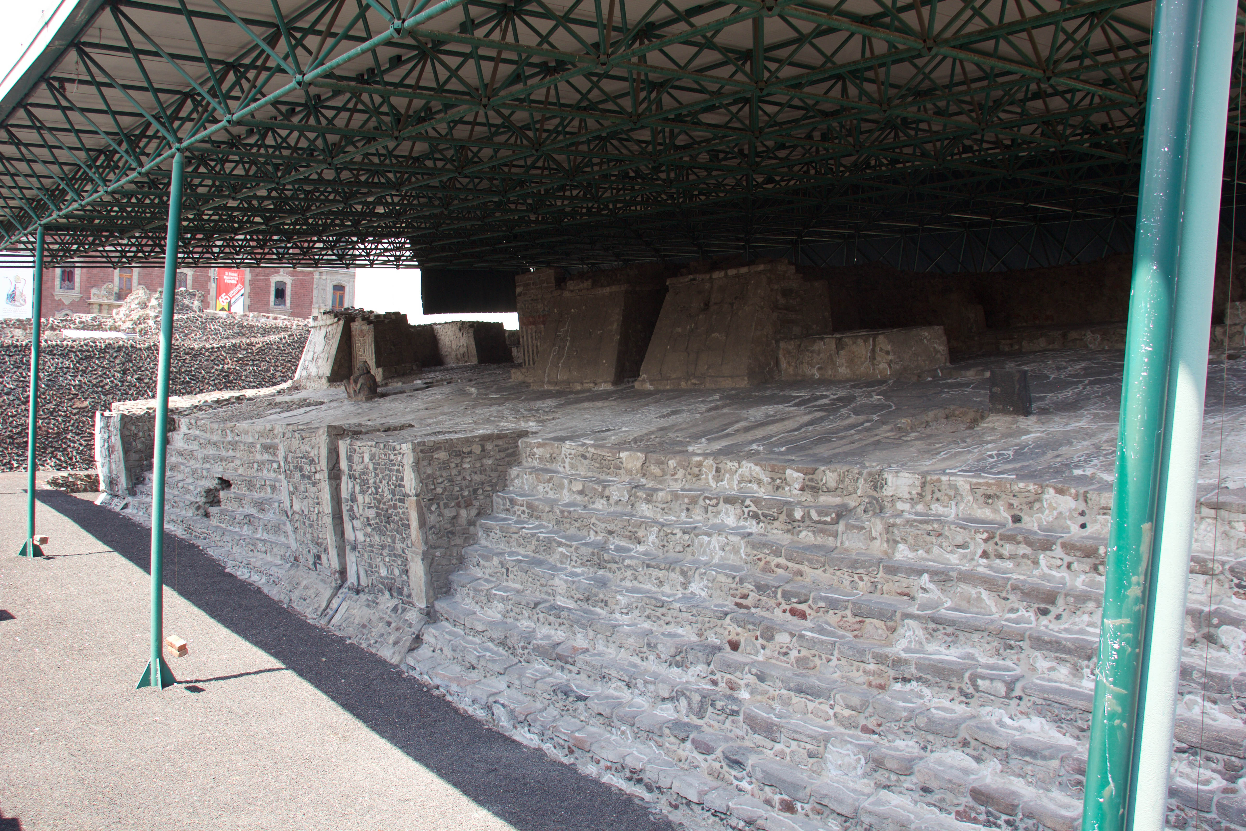 Templo Mayor, Mexico City, Mexico.